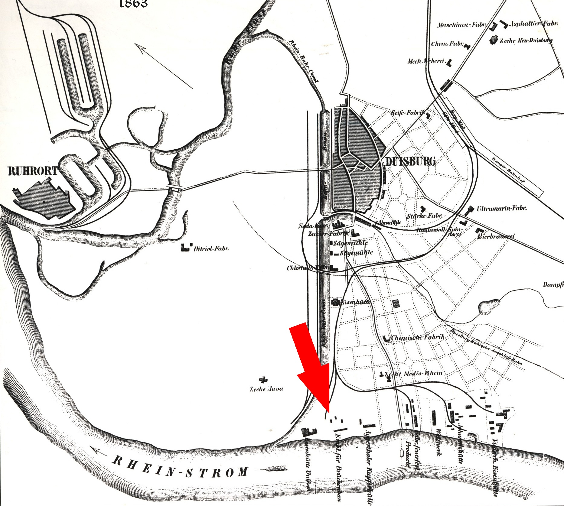 Headquarter_Gesellschaft_Harkort_1860-1930